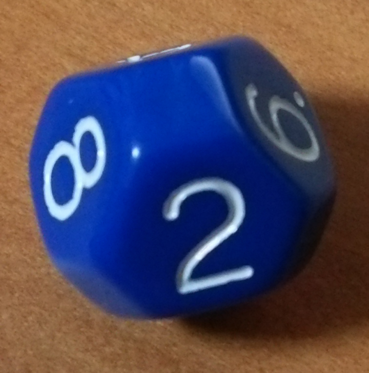 truncated octahedron dice